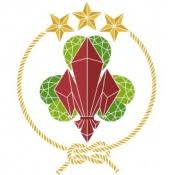 Official logo of Latvian Scout and Guide Central Organization